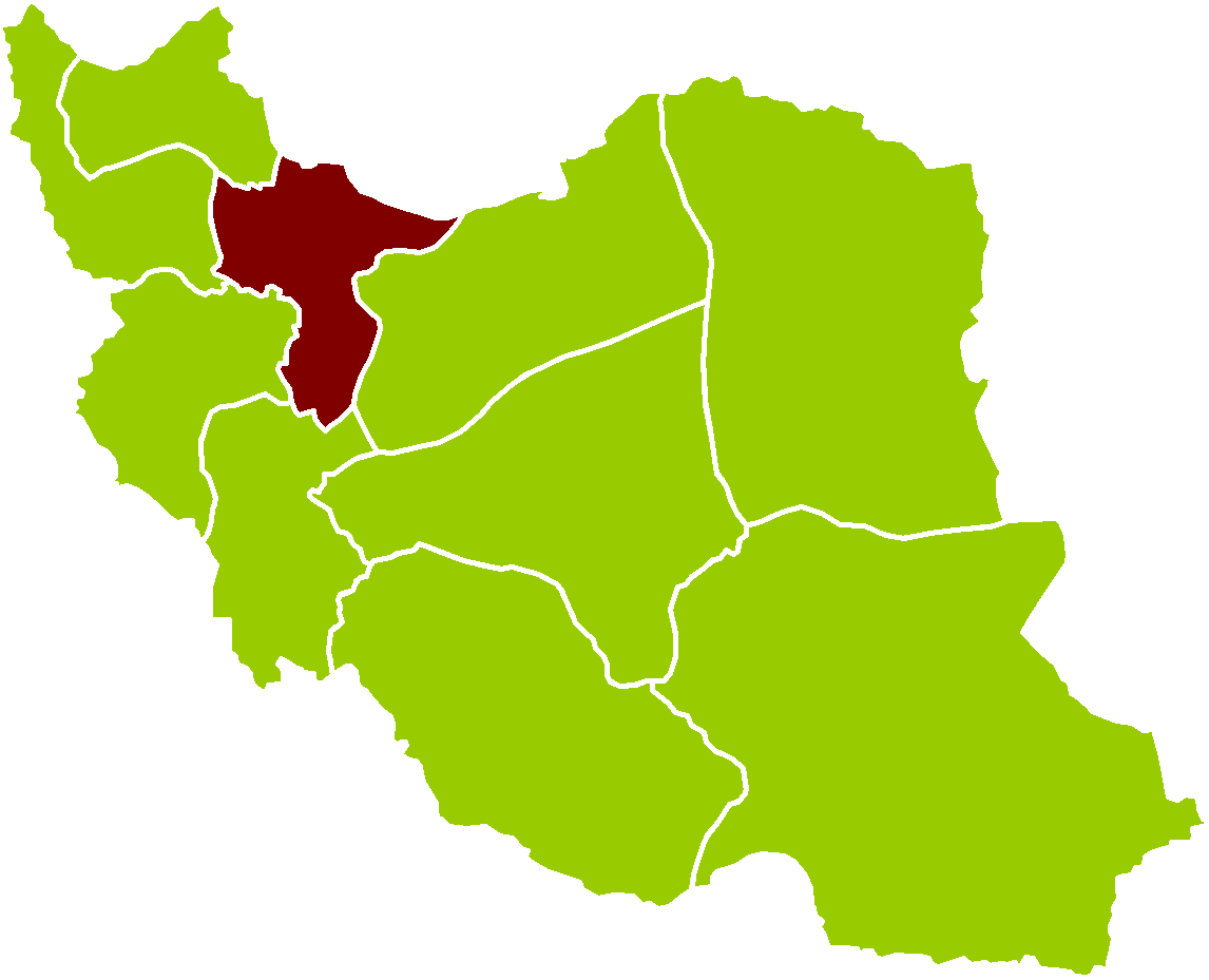 First province of Iran